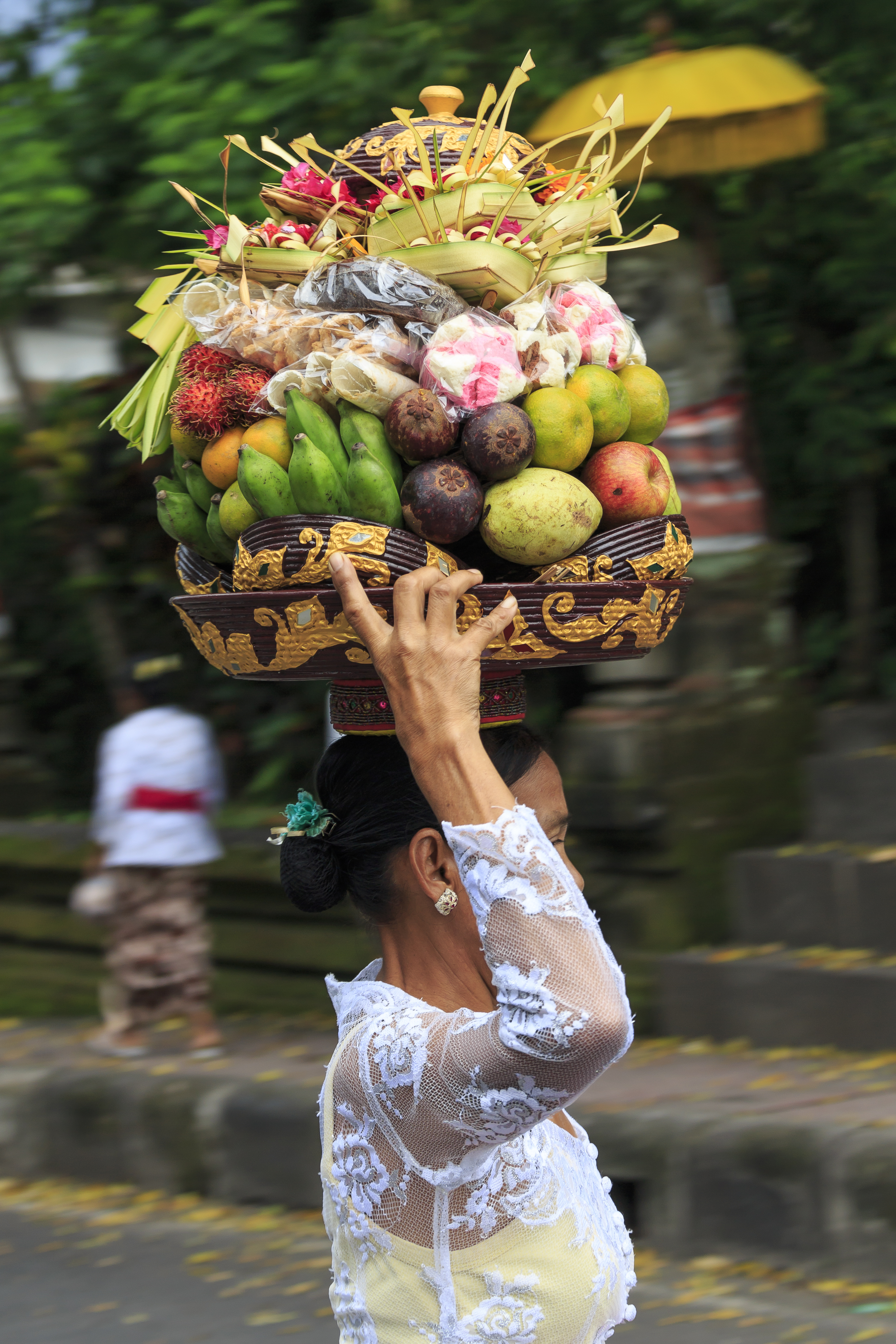 Ubud, Bali, Indonesia: A woman is hurrying with her offerings to Pura Dalem Puri.